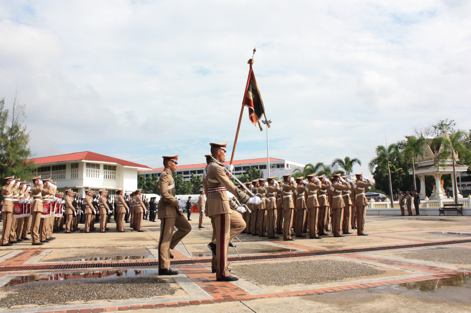 Police Colours of the Royal Police Cadet Academy